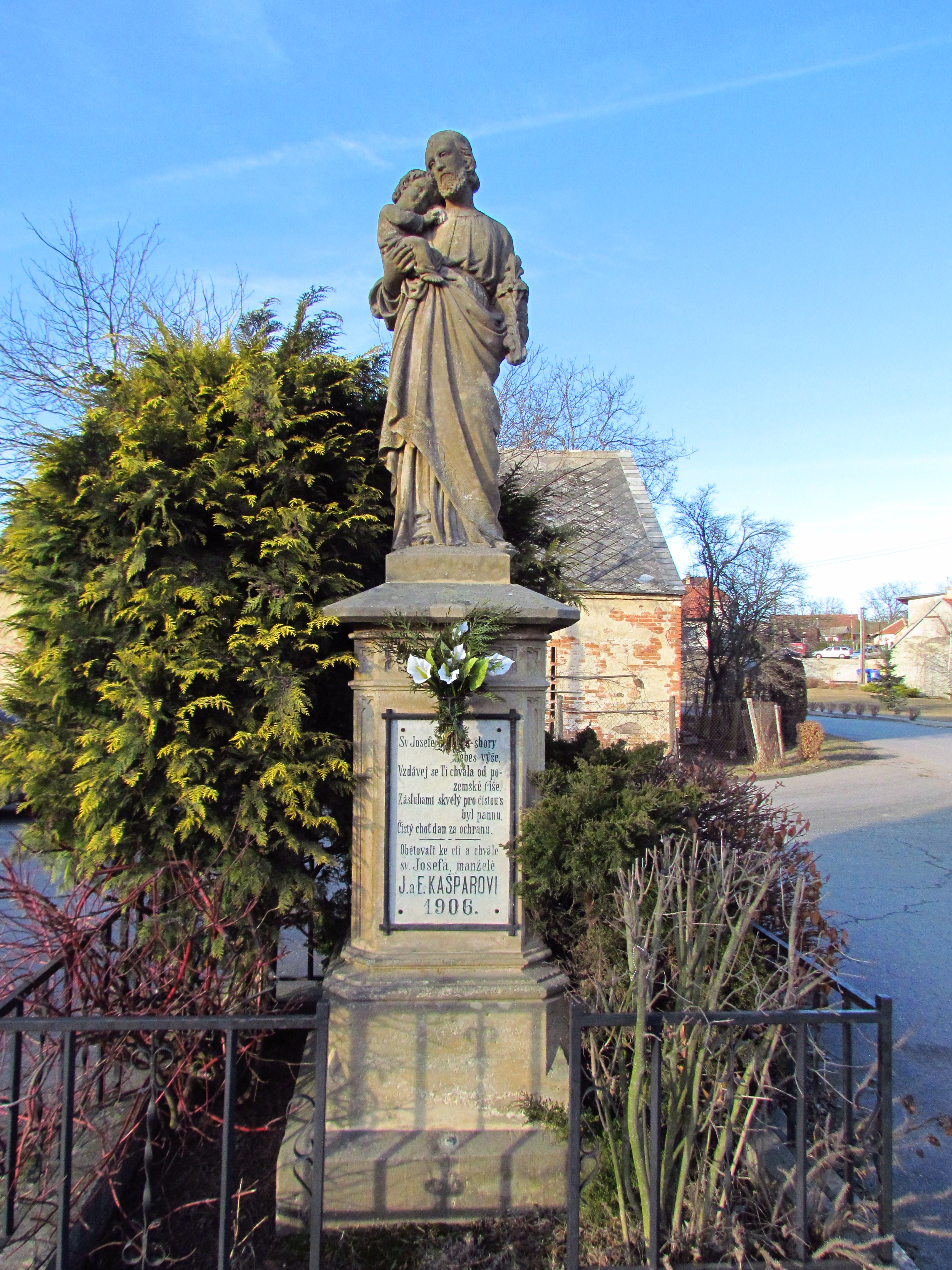 Statue of Saint Joseph in Březník, Třebíč District.